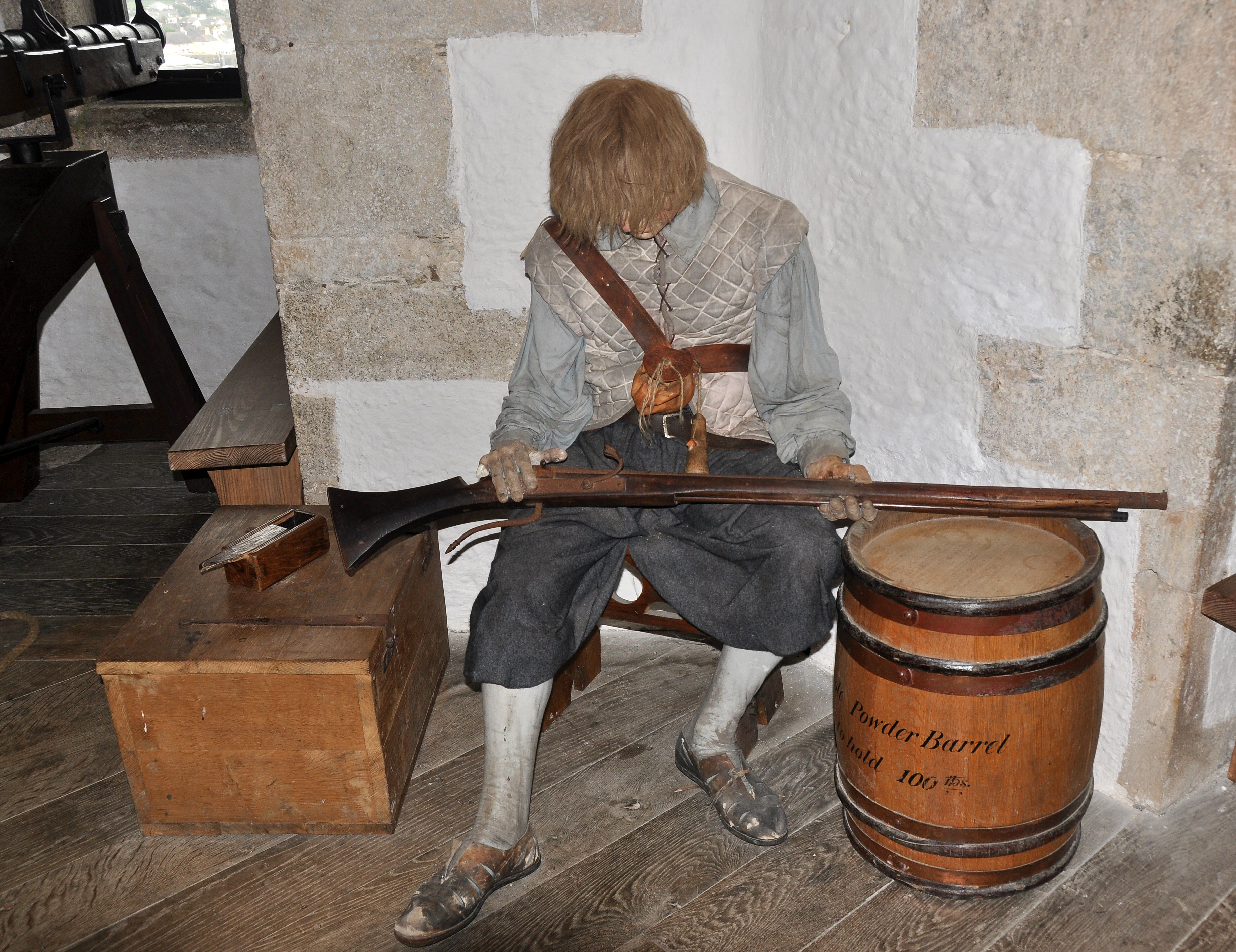 A model of a tudor soldier 'guarding' at St Mawes Castle, Cornwall.